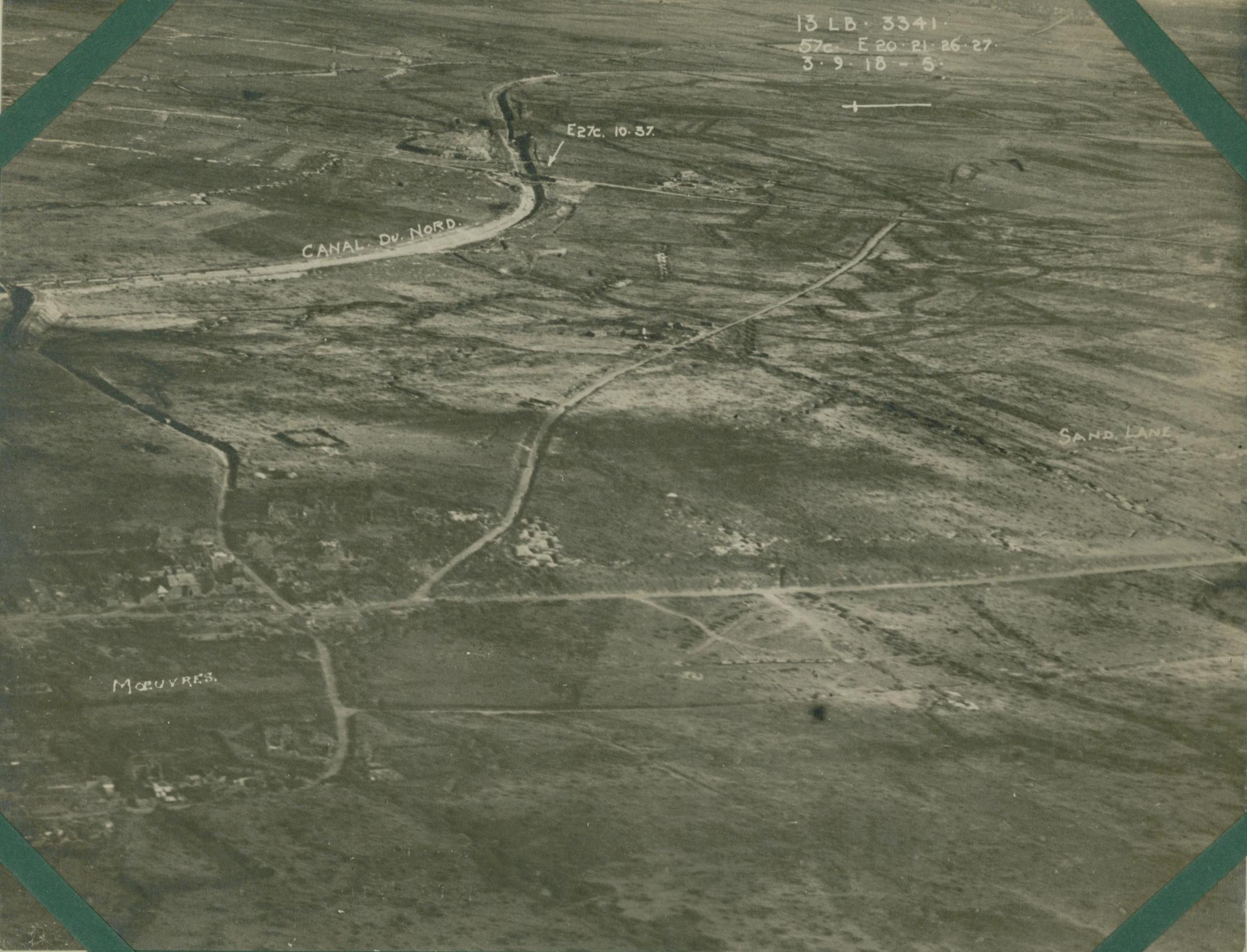 High Resolution Aerial photograph. Markings: North arrow; "CANAL DU NORD", "MOEUVRES", "SAND LANE" and map reference "E27c.10.37.", all labelled in white.